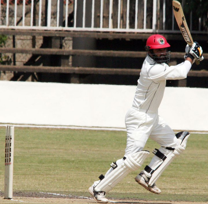 Nawroz Mangal batting against Kenya in a first-class match.